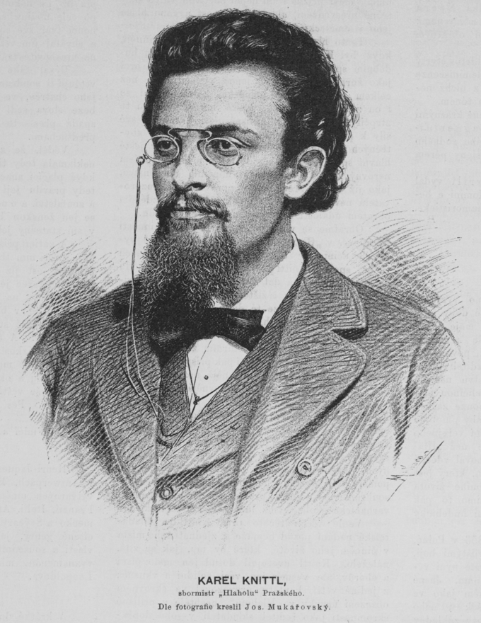 Portrait of Karel Knittl (1853 - 1907), Czech musician.